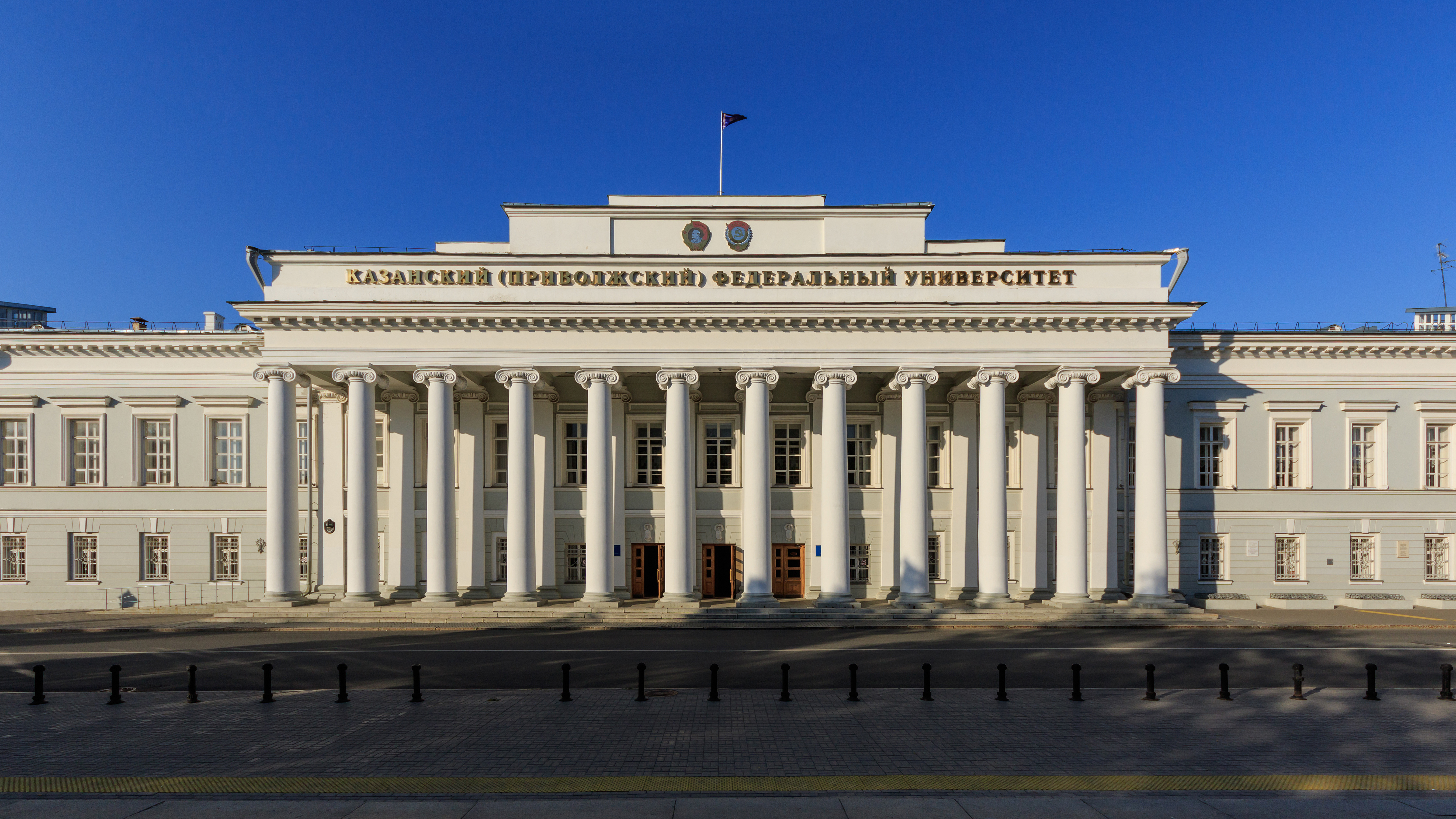 Old building (detail) of the Federal University in Kazan, Russia